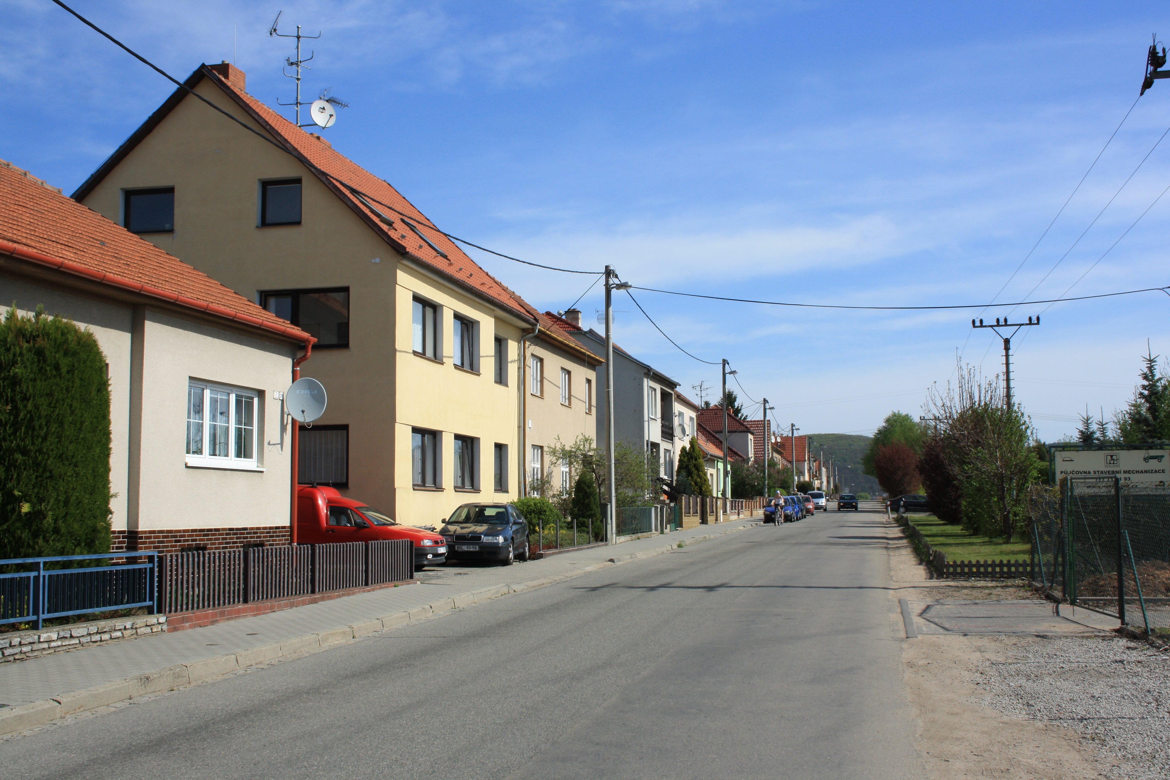 Troubsko. Brno-Country District, Sout Moravian Region, Czech Republic Project: Chráněná území This photograph was taken with a DSLR from WMCZ's Camera grant.